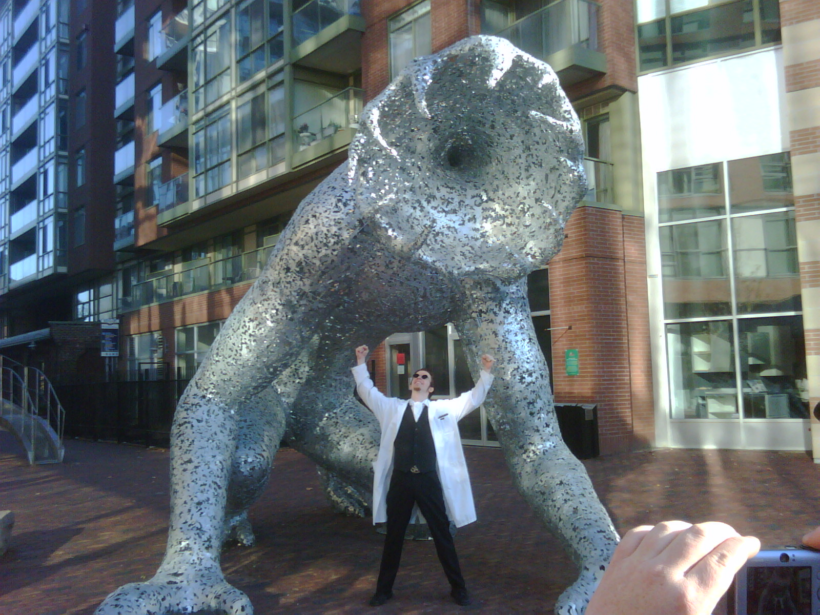 Toronto Steampunk society Distillery District Roam